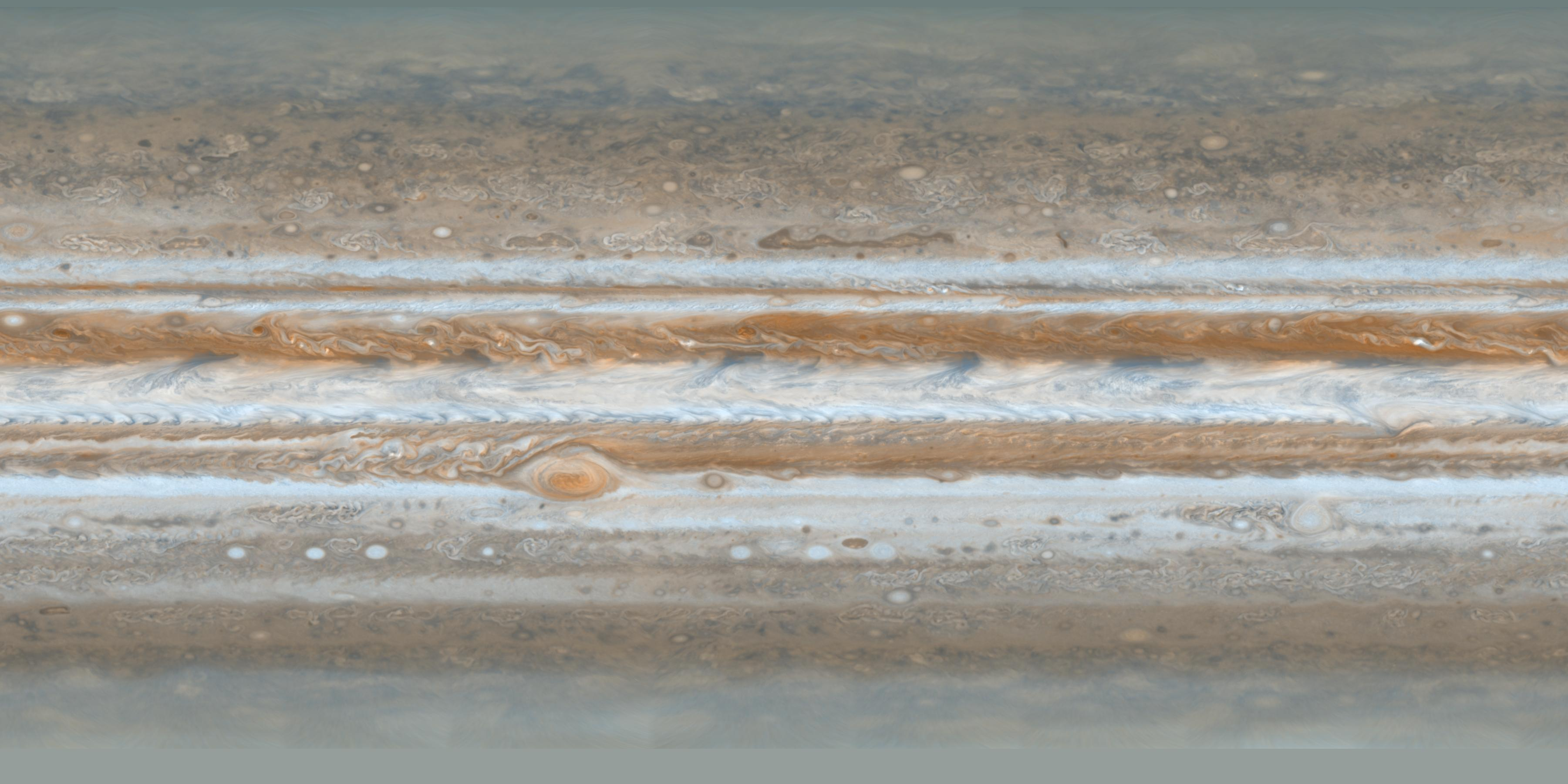 PIA07782: Cassini's Best Maps of Jupiter (Cylindrical Map) - These color maps of Jupiter were constructed from images taken by the narrow-angle camera onboard NASA's Cassini spacecraft on Dec. 11 and 12, 2000, as the spacecraft neared Jupiter during its flyby of the giant planet. Cassini was on its way to Saturn. They are the most detailed global color maps of Jupiter ever produced. The smallest visible features are about 120 kilometers (75 miles) across. The maps are composed of 36 images: a pair of images covering Jupiter's northern and southern hemispheres was acquired in two colors every hour for nine hours as Jupiter rotated beneath the spacecraft. Although the raw images are in just two colors, 750 nanometers (near-infrared) and 451 nanometers (blue), the map's colors are close to those the human eye would see when gazing at Jupiter. The maps show a variety of colorful cloud features, including parallel reddish-brown and white bands, the Great Red Spot, multi-lobed chaotic regions, white ovals and many small vortices. Many clouds appear in streaks and waves due to continual stretching and folding by Jupiter's winds and turbulence. The bluish-gray features along the north edge of the central bright band are equatorial "hot spots," meteorological systems such as the one entered by NASA's Galileo probe. Small bright spots within the orange band north of the equator are lightning-bearing thunderstorms. The polar regions are less clearly visible because Cassini viewed them at an angle and through thicker atmospheric haze (such as the whitish material in the south polar map -- see PIA07784. Pixels in the rectangular map cover equal increments of planetocentric latitude (which is measured relative to the center of the planet) and longitude, and extend to 180 degrees of latitude and 360 degrees of longitude.